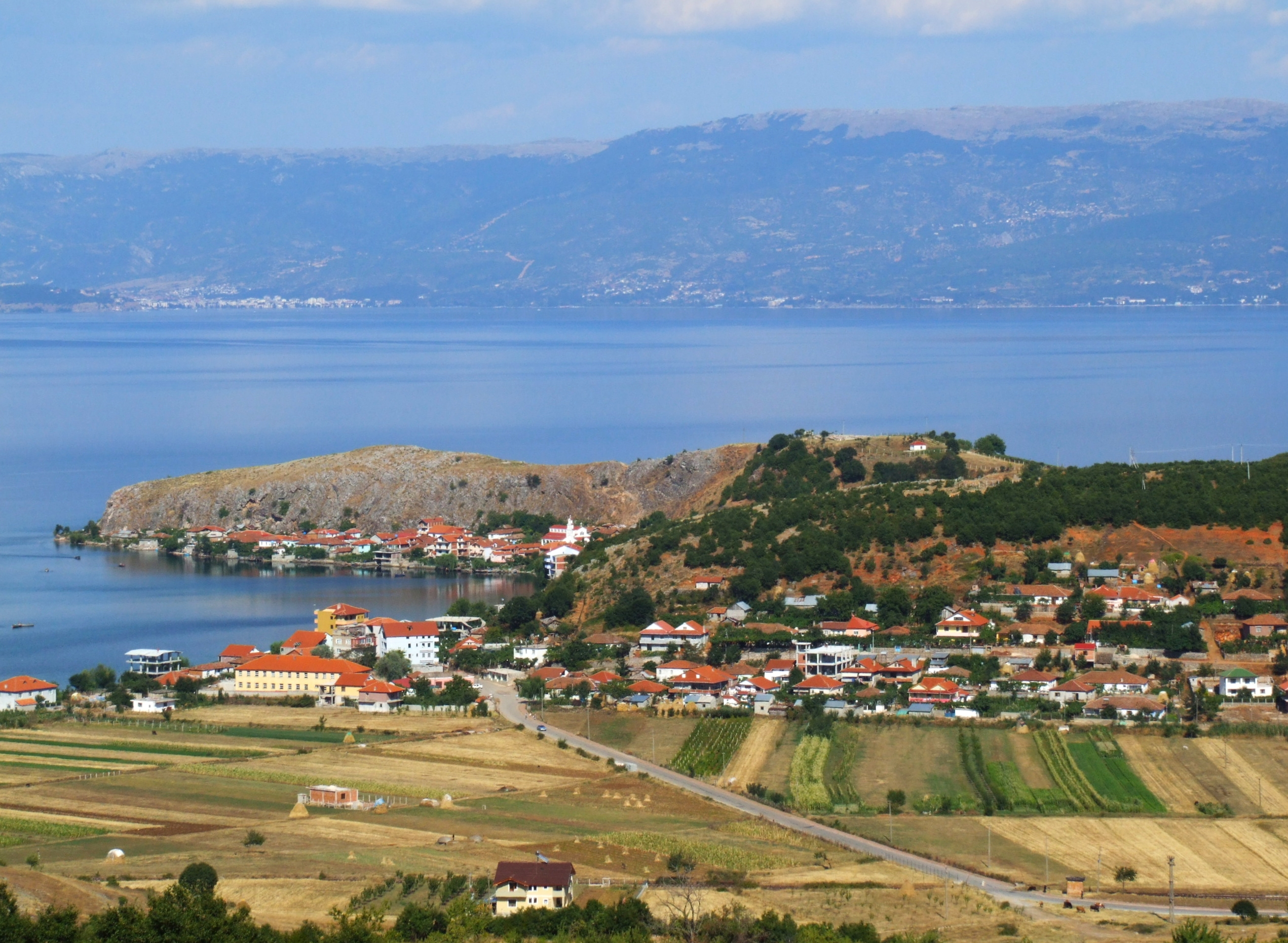 Lin, Albania